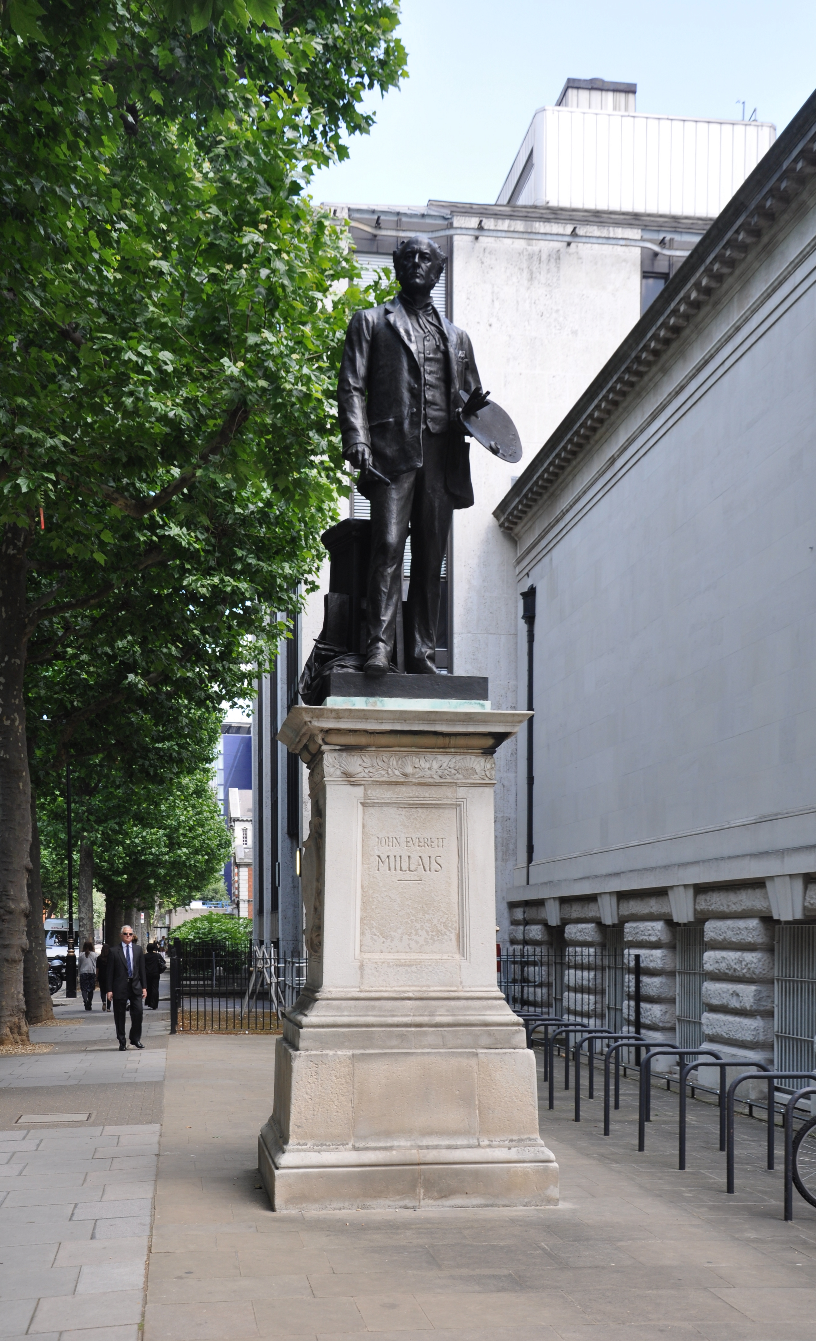 London, Statue of John Everett Millais by Thomas Brock at Tate Britain